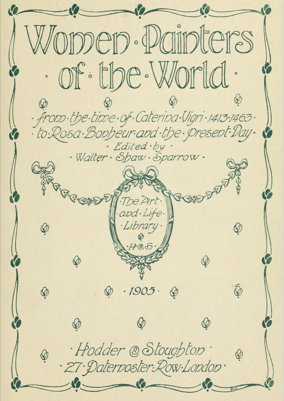 Title page of Women Painters of the World, from the time of Caterina Vigri, 1413-1463, to Rosa Bonheur and the present day by Walter Shaw Sparrow, The Art and Life Library, Hodder & Stoughton, 27 Paternoster Row, London